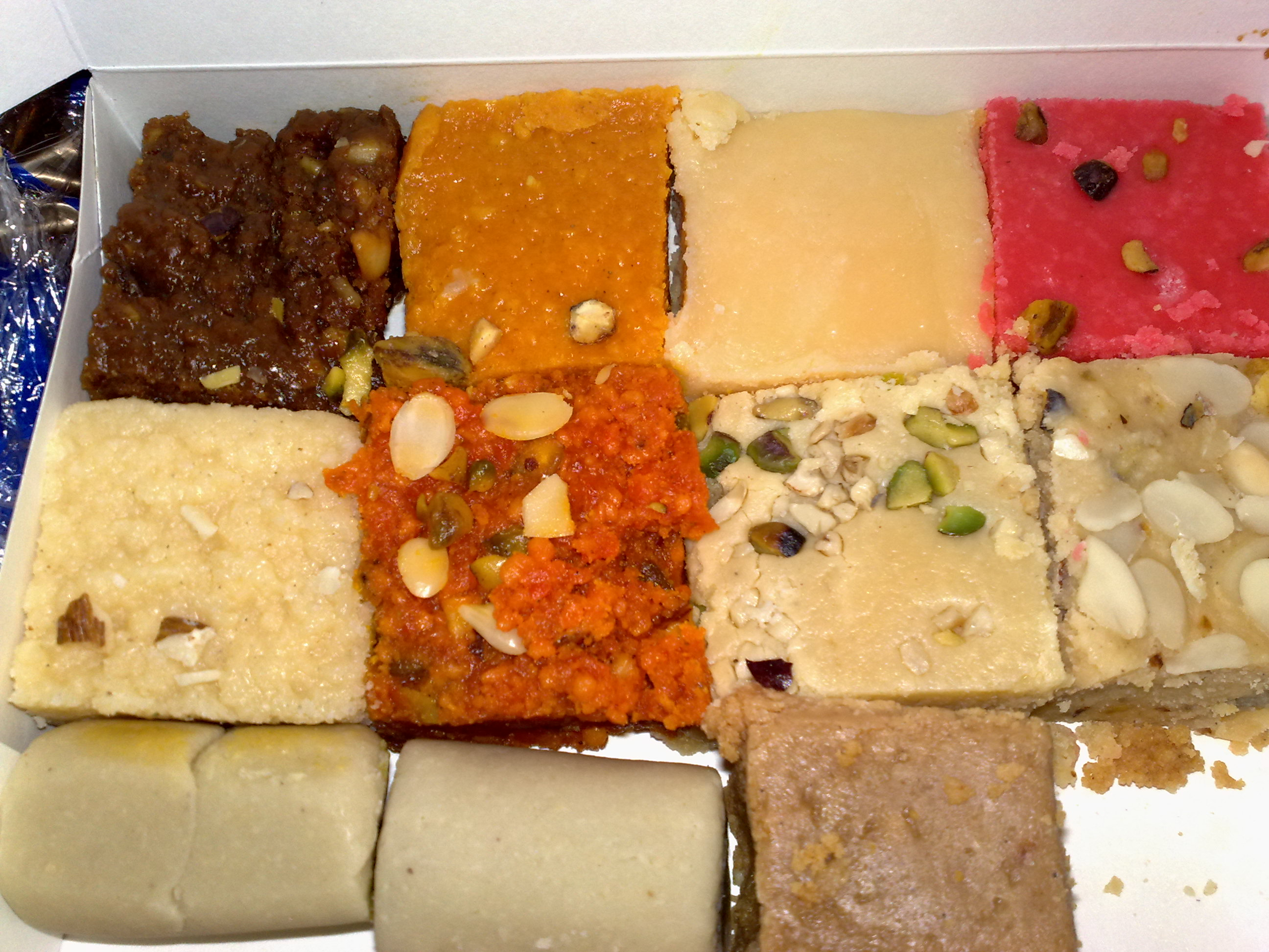 Sweets, mithai box sold in an Indian desserts/sweets shop, Drummond Street London Each is different. The top two rows are eight different types of burfis, the lower most row is dry fruit paste based rolls, while the brown square next to empty spot in the bottom row is a type of South Asian halwa-square. Sweets are more than food. They are part of festivals, most celebrations, items of hospitality in Indian culture.